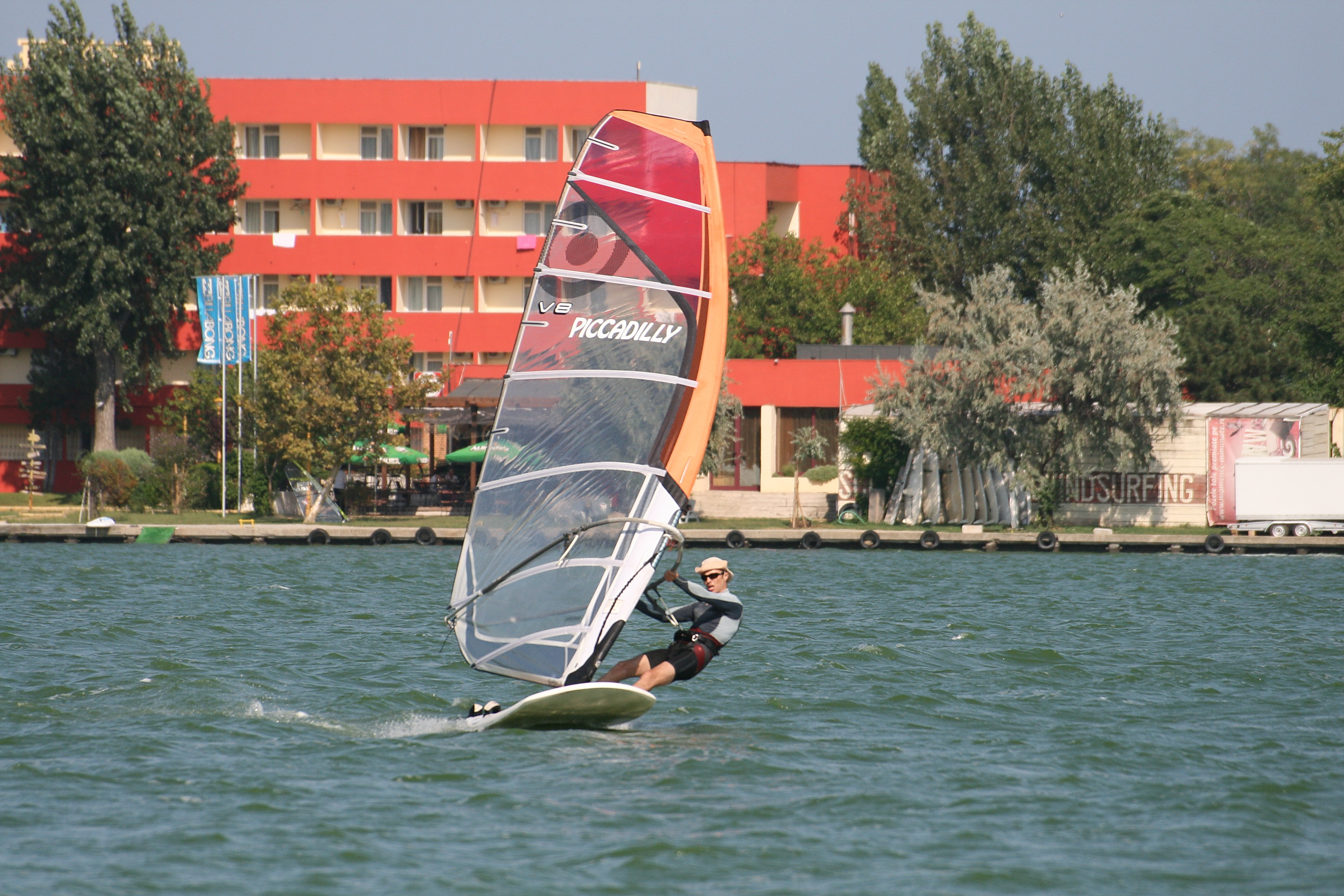 windsurfing lesson